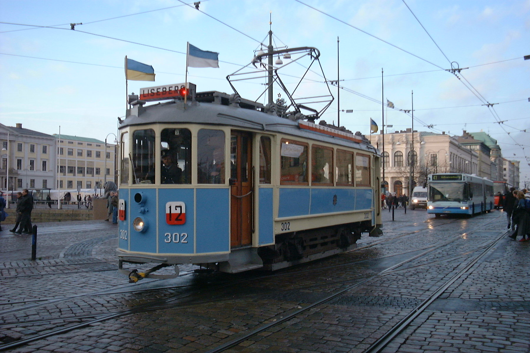 Old vehicle used for excursions